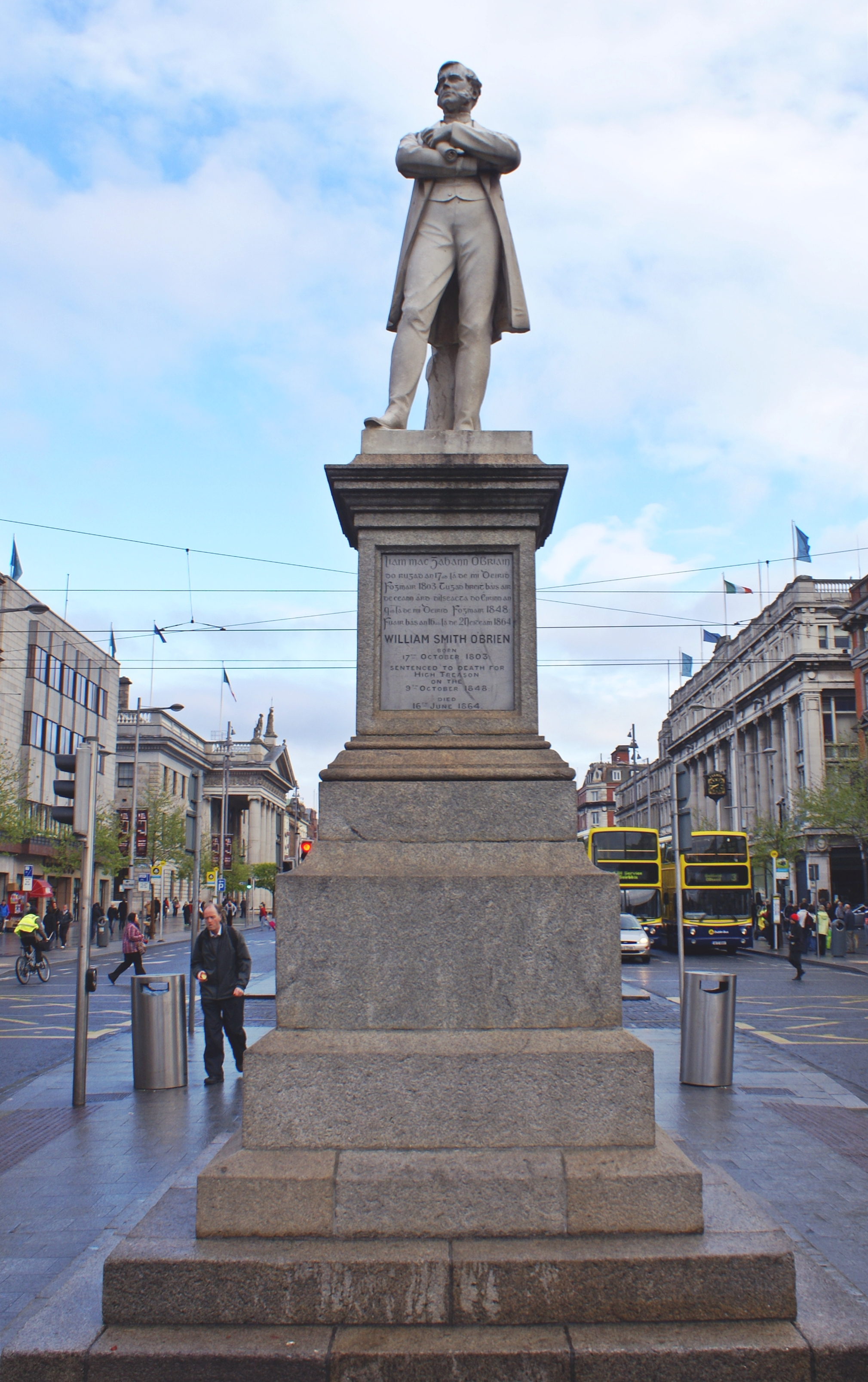 Statue of William Smith O'Brien on O'Connell Street, Dublin, Ireland.